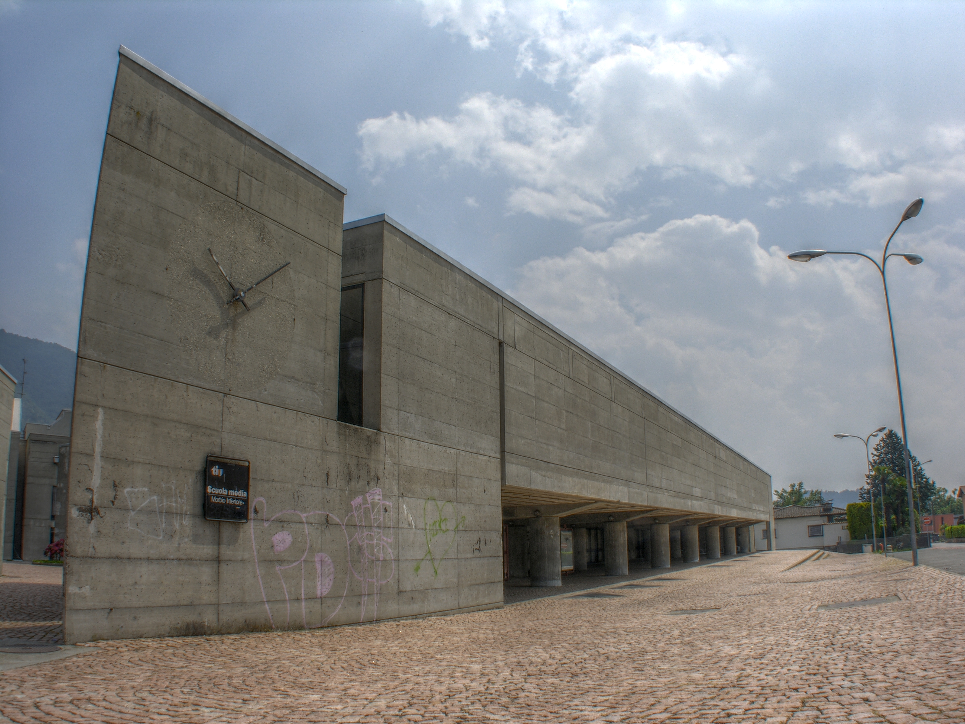 Morbio Inferiore, Tessin, Switzerland, School front view